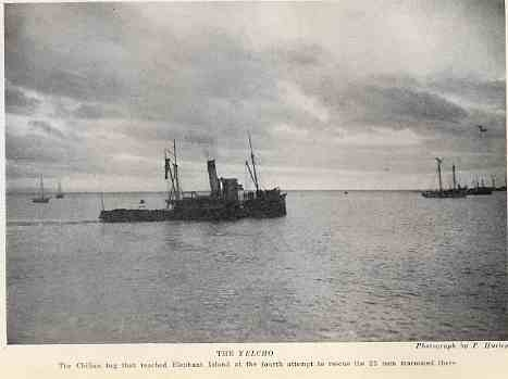 Chilenian ship Yelcho, that saved Expedition Endurance members in Elephant Island (1916)